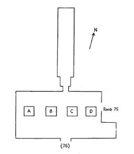 Floor plan of the Theban tomb TT 76. It is located at Sheikh Abd el-Gournah, in the Theban necropolis, on the west bank of the Nile, facing Luxor in Egypt.